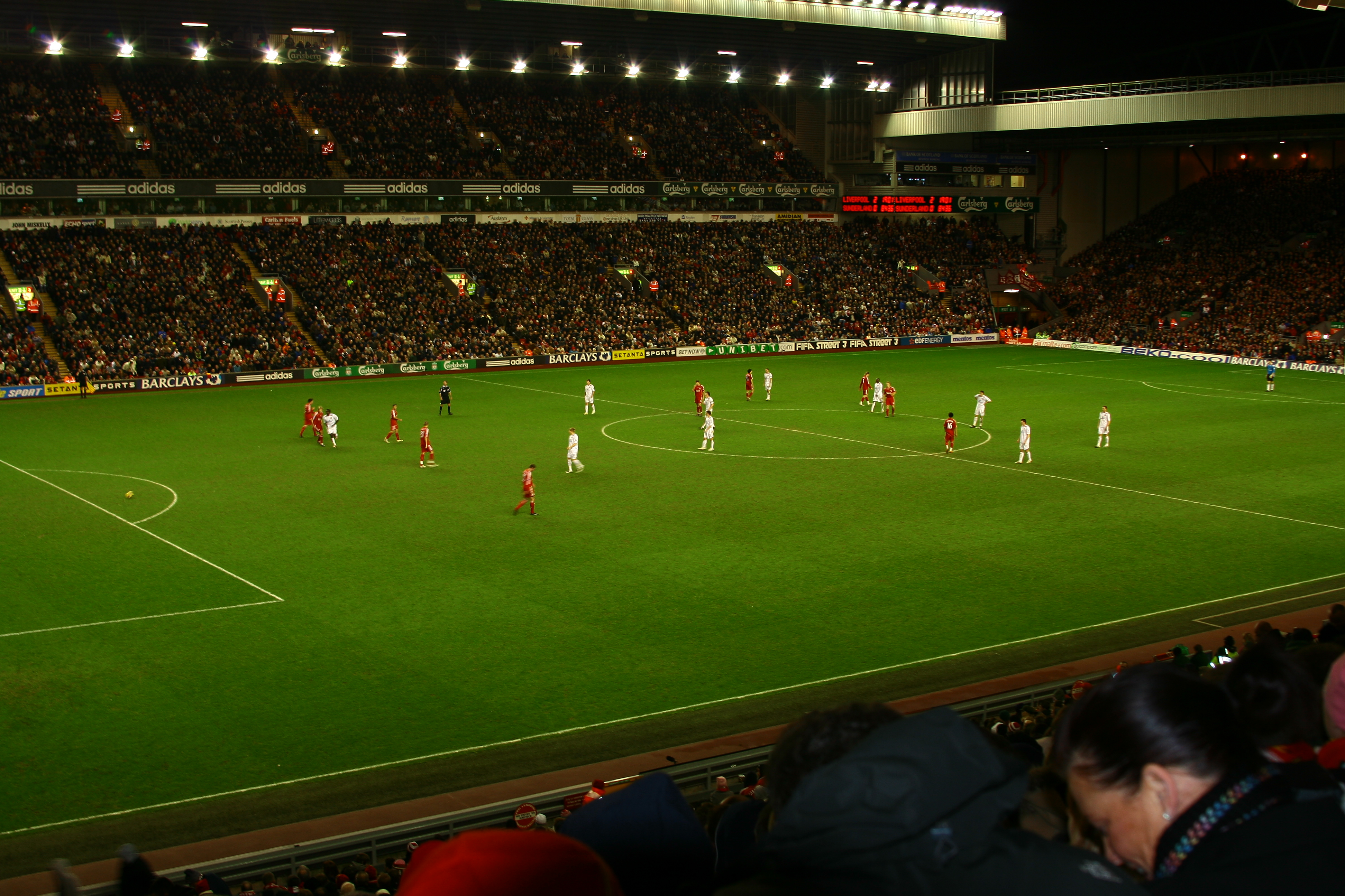 Liverpool vs Sunderland on 2 February 2008 at Anfield.